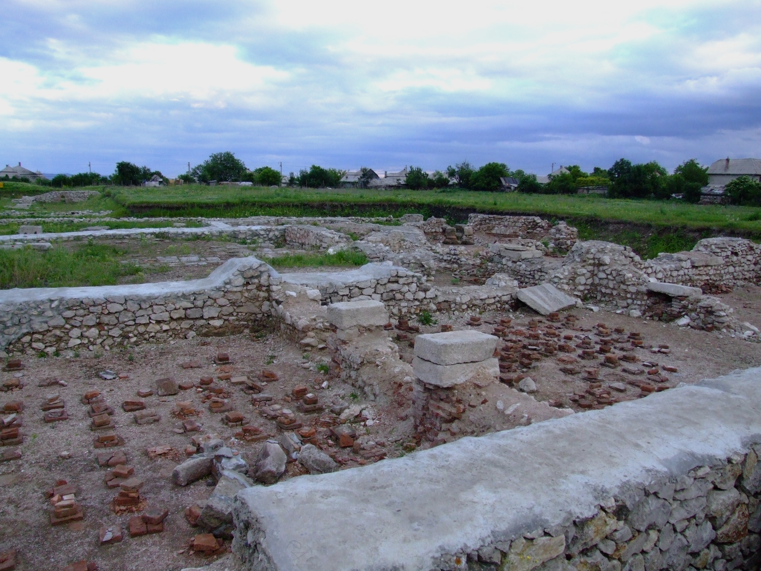 Roman Castra Potaissa built after the conquest of Dacia by Trajan in 106 AD, located in modern Turda, Romania